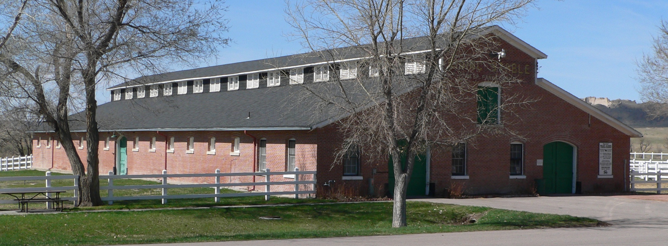 Riding stables at Fort Robinson near Crawford, Nebraska.